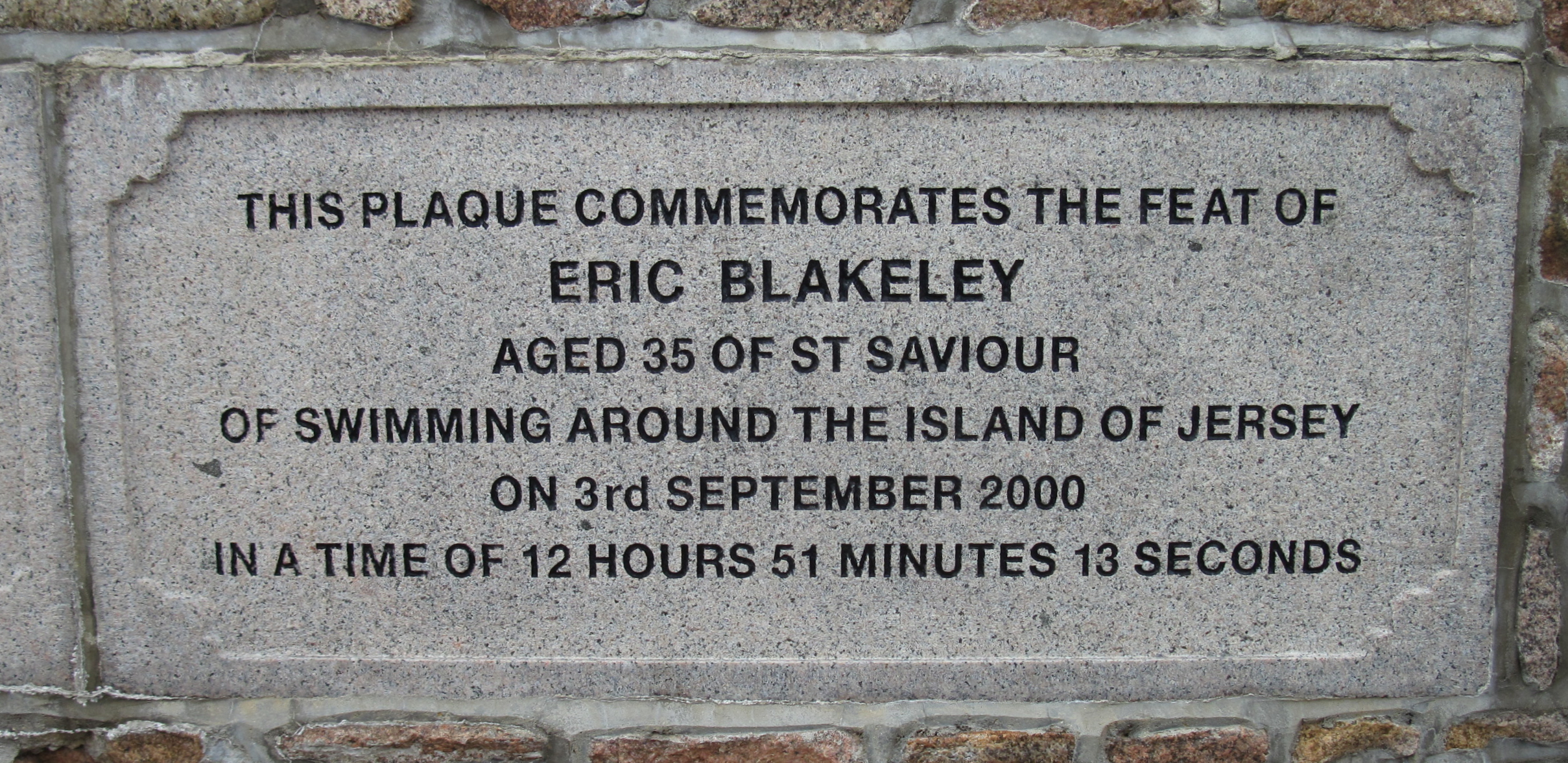 Saint Clement, Jersey, 4 August 2009